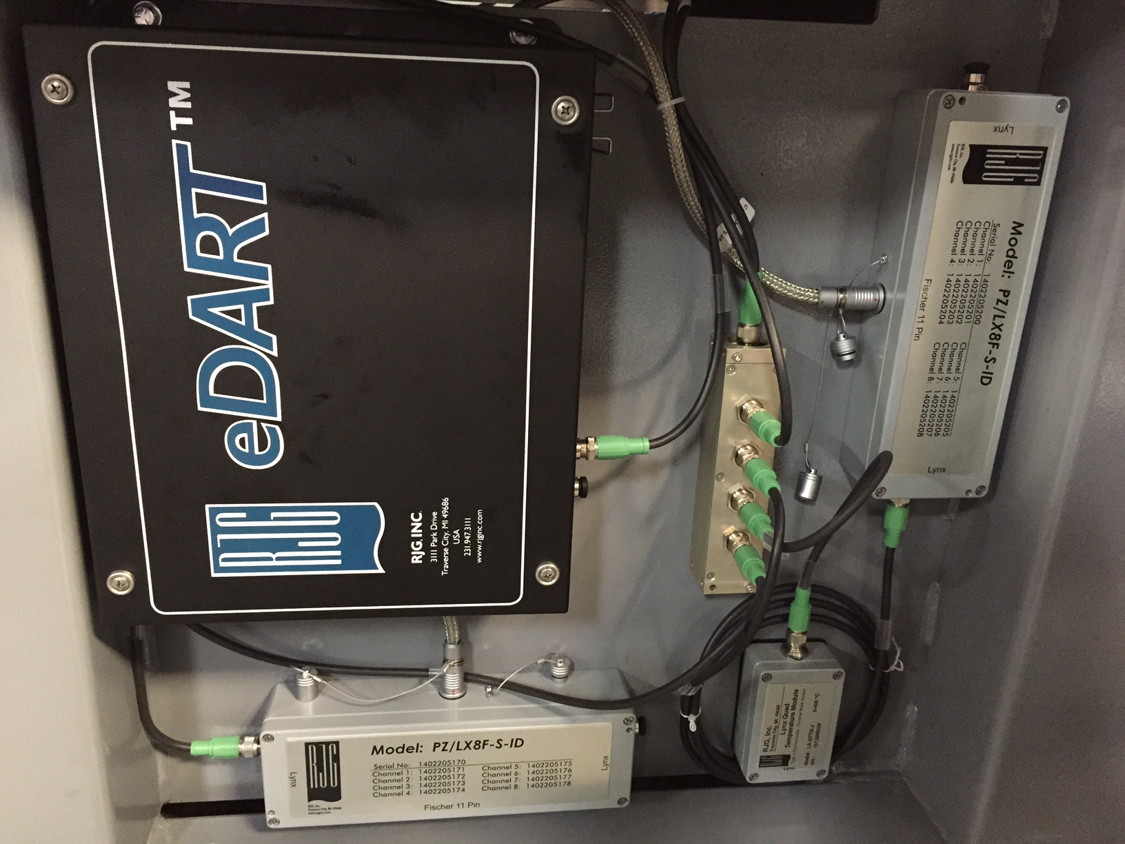 RJG's eDart system installed on an injection molding machine.